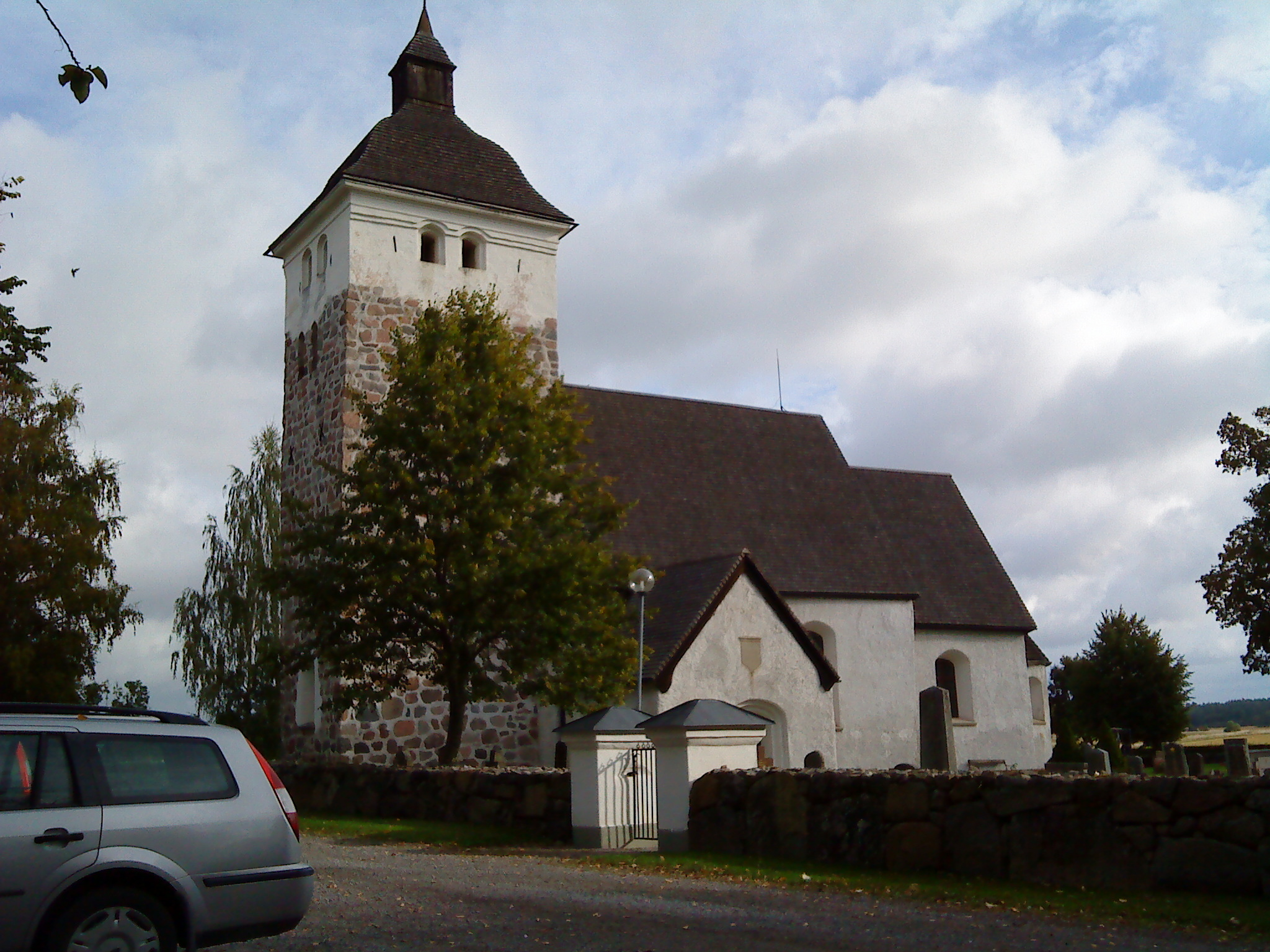 A picture of the Balingsta church in the Uppsala diocese in Uppland, Sweden. The picture was shot from southwest.